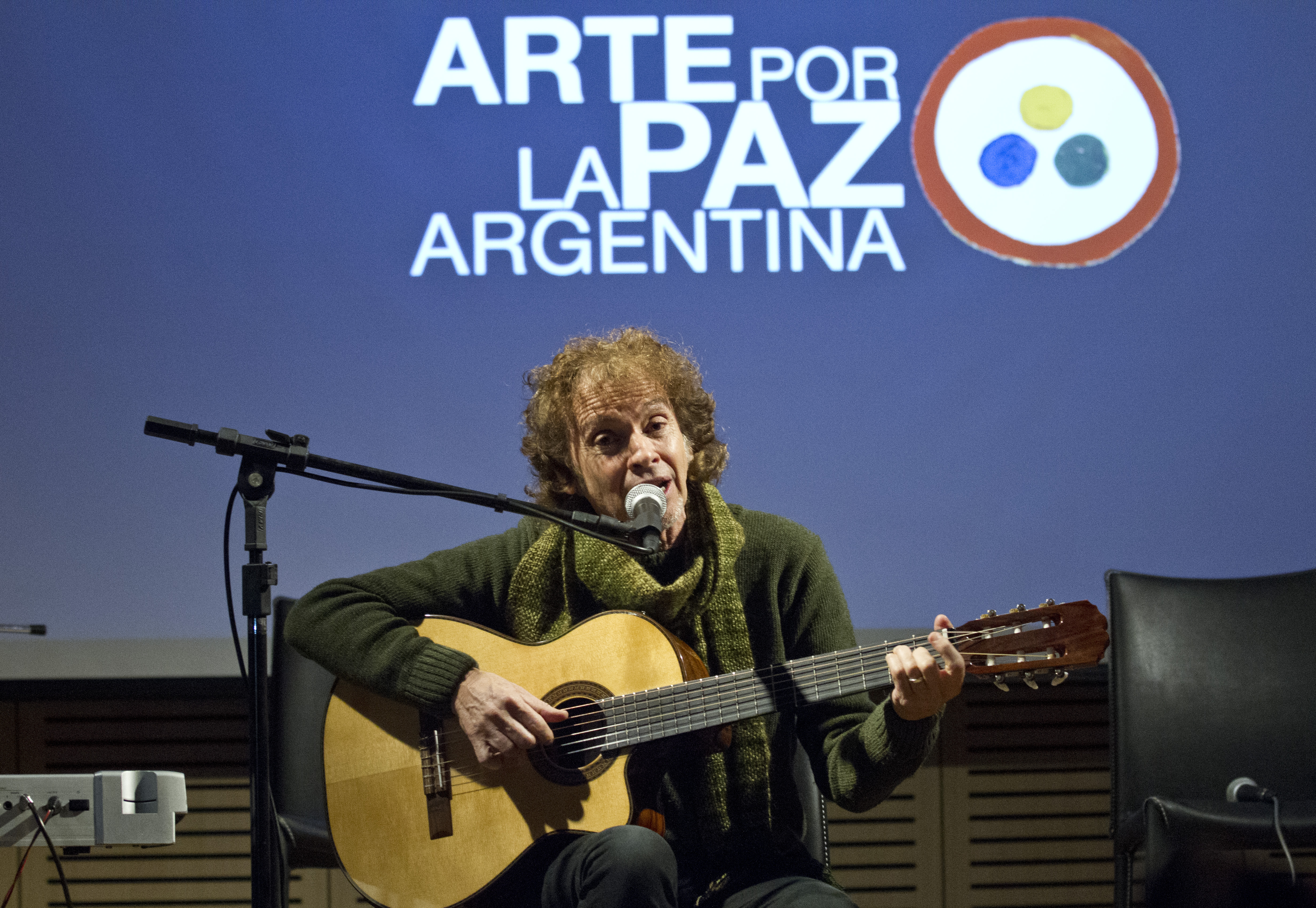 Buenos Aires, 01 de Agosto de 2015En el auditorio del museo Malvinas e Islas del Atlántico Sur se llevó a cabo el cierre de Arte por la Paz Argentina, con la presencia del director del museo Malvinas, Jorge Giles, el músico Raúl Porchetto, el fotógrafo Rubén Andón, y la banda de Dany Porchetto. También estuvo presente el director Nacional de Artes del Ministerio de Cultura de la Nación, Rodolfo García.Fotos: Silvina Frydlewsky / Ministerio de Cultura de la Nación